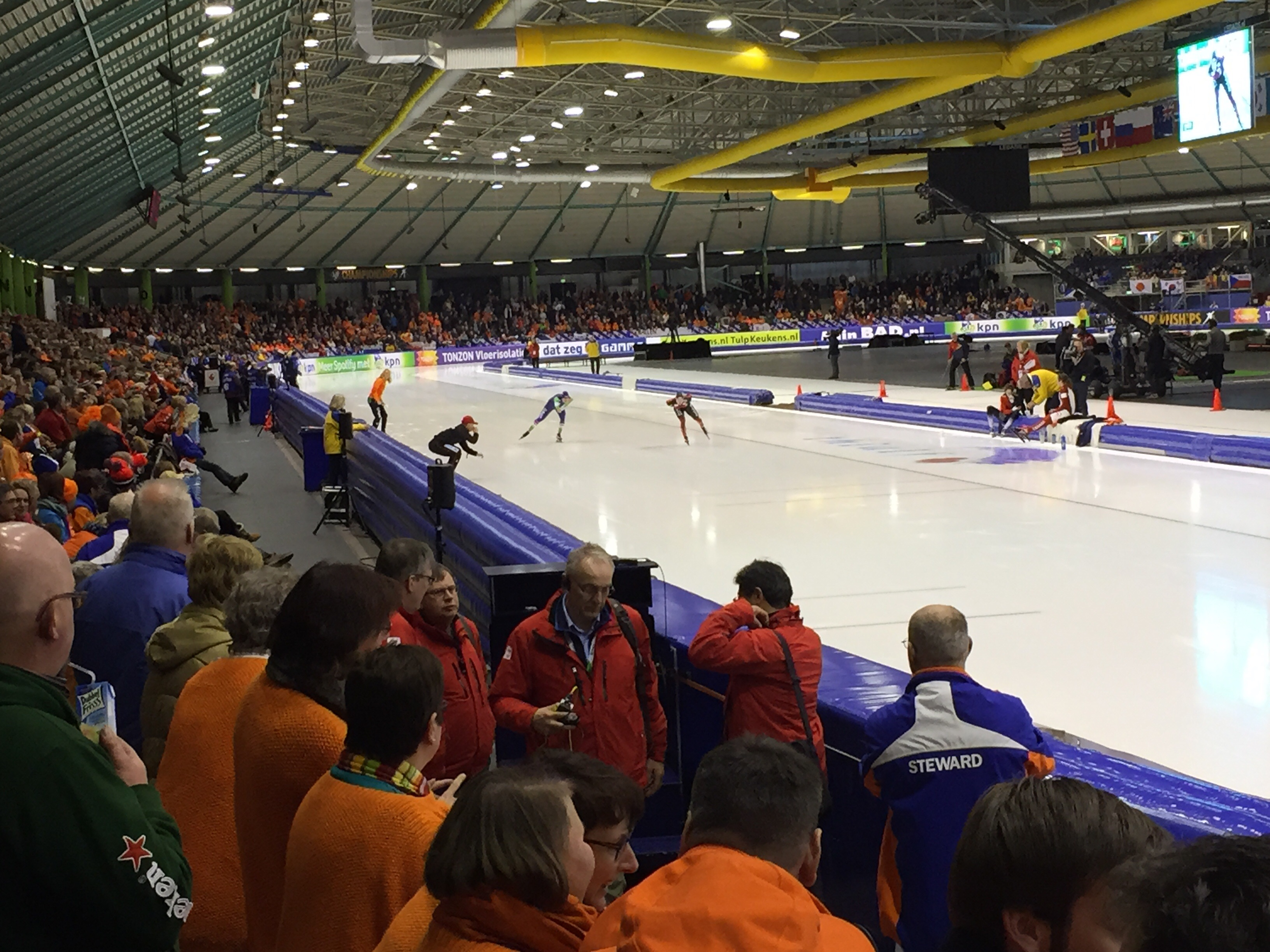 2015 World Single Distance Speed Skating Championships, Women's 5000m (